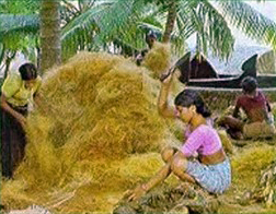 Photograph taken by author sanhjaa in March, 2002